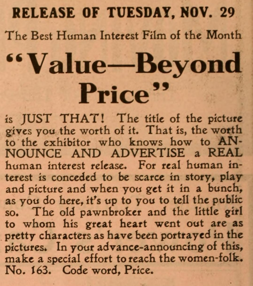 The Thanhouser Company's advertisement for "Value - Beyond Price" from 1910.